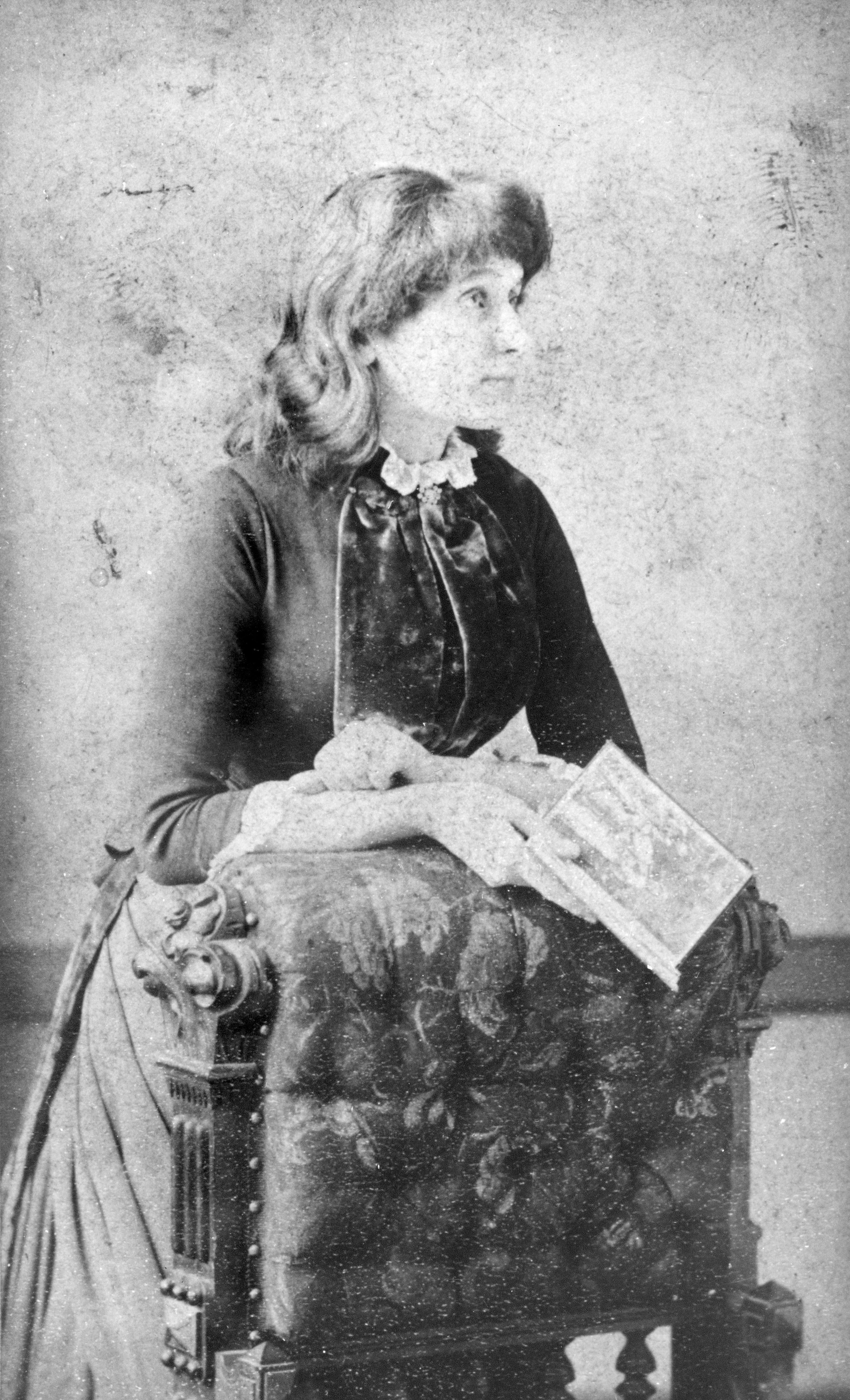 7JCC/O/02/088 Photograph, modern reproduction, printed, paper, monochrome, studio portrait of Emmeline Pankhurst leaning against the back of a chair, three quarter length, right profile; printed below image 'Abel Lewis. Douglas, Isle of Man', manuscript inscription on reverse 'Mrs Pankhurst as a girl?'